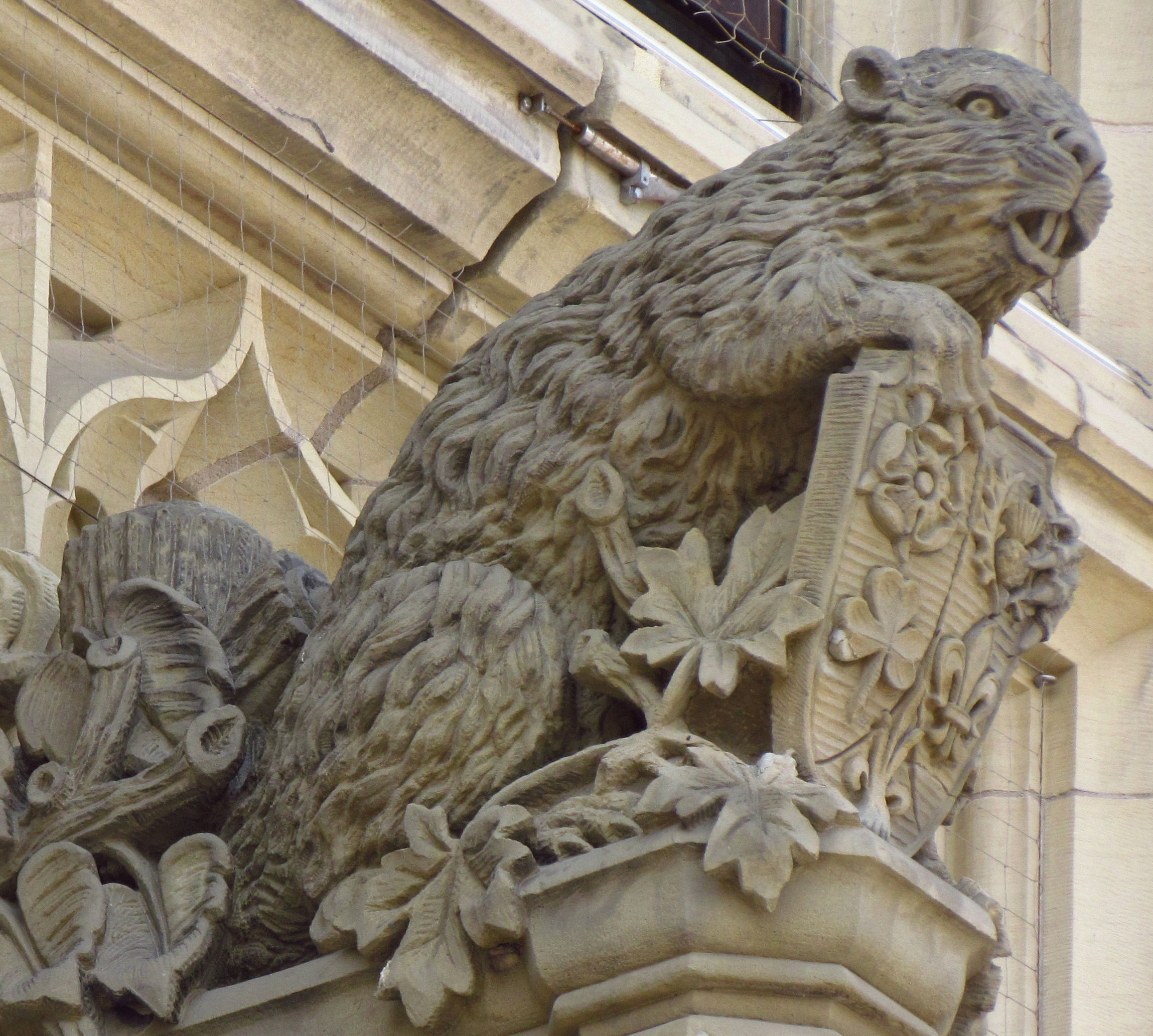 Beaver sculpture, over entrance to Centre Block of Canadian Parliament, Ottawa, Ontario, Canada